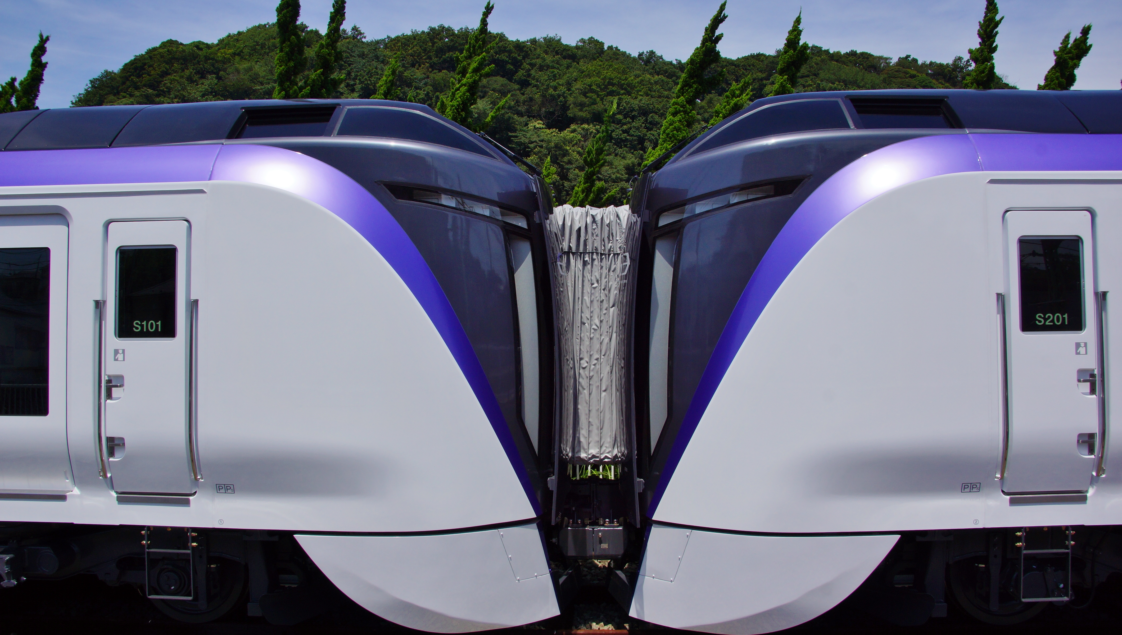 A closeup of the gangway connection between JR East E353 series EMU sets S101 (left) and S201 (right) next to Jimmuji Station on delivery from the J-TREC factory in Yokohama